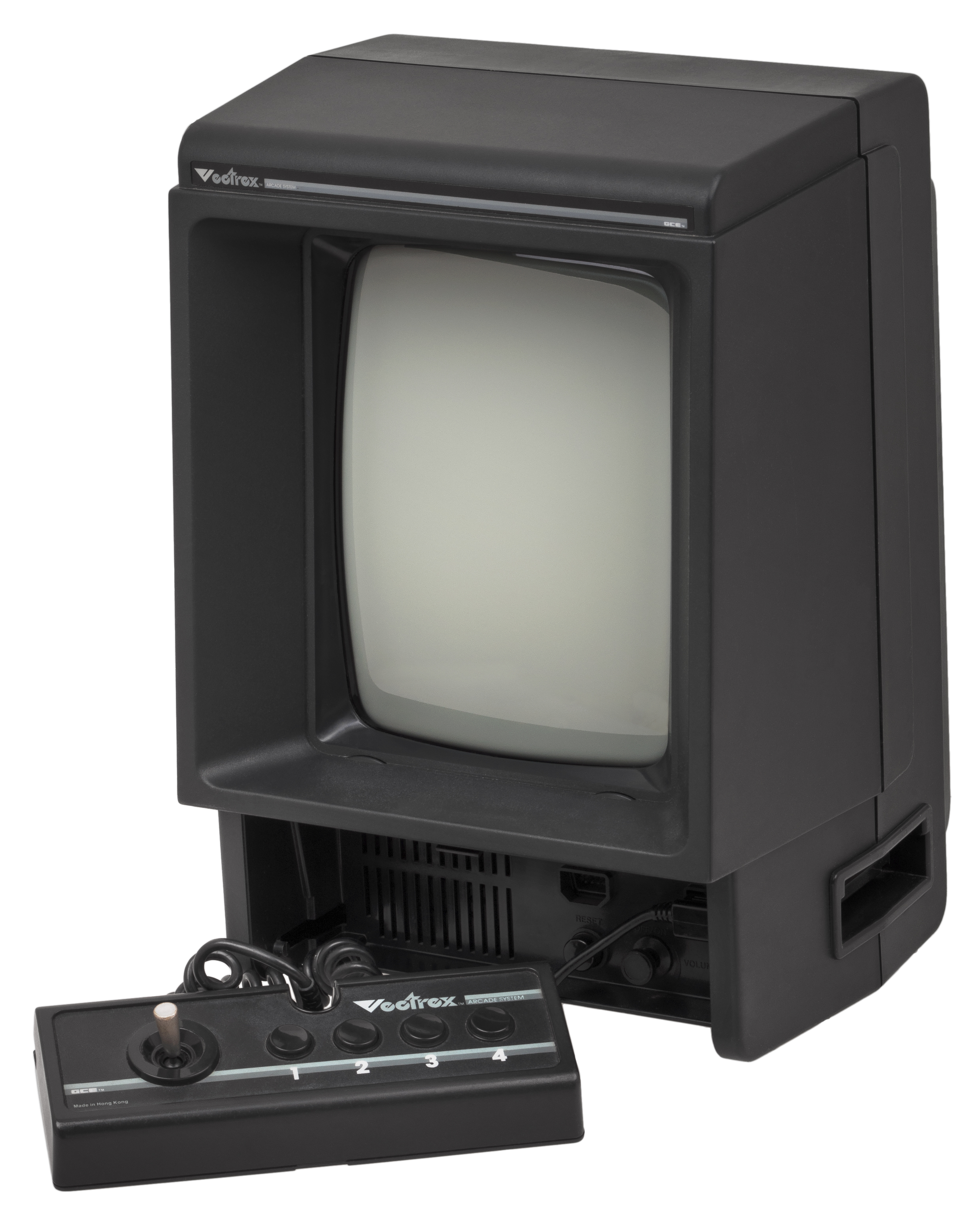 The Vectrex video game console, shown with controller. The Vectrex was released in America in 1982 and featured vector graphics thanks to its built-in monitor.